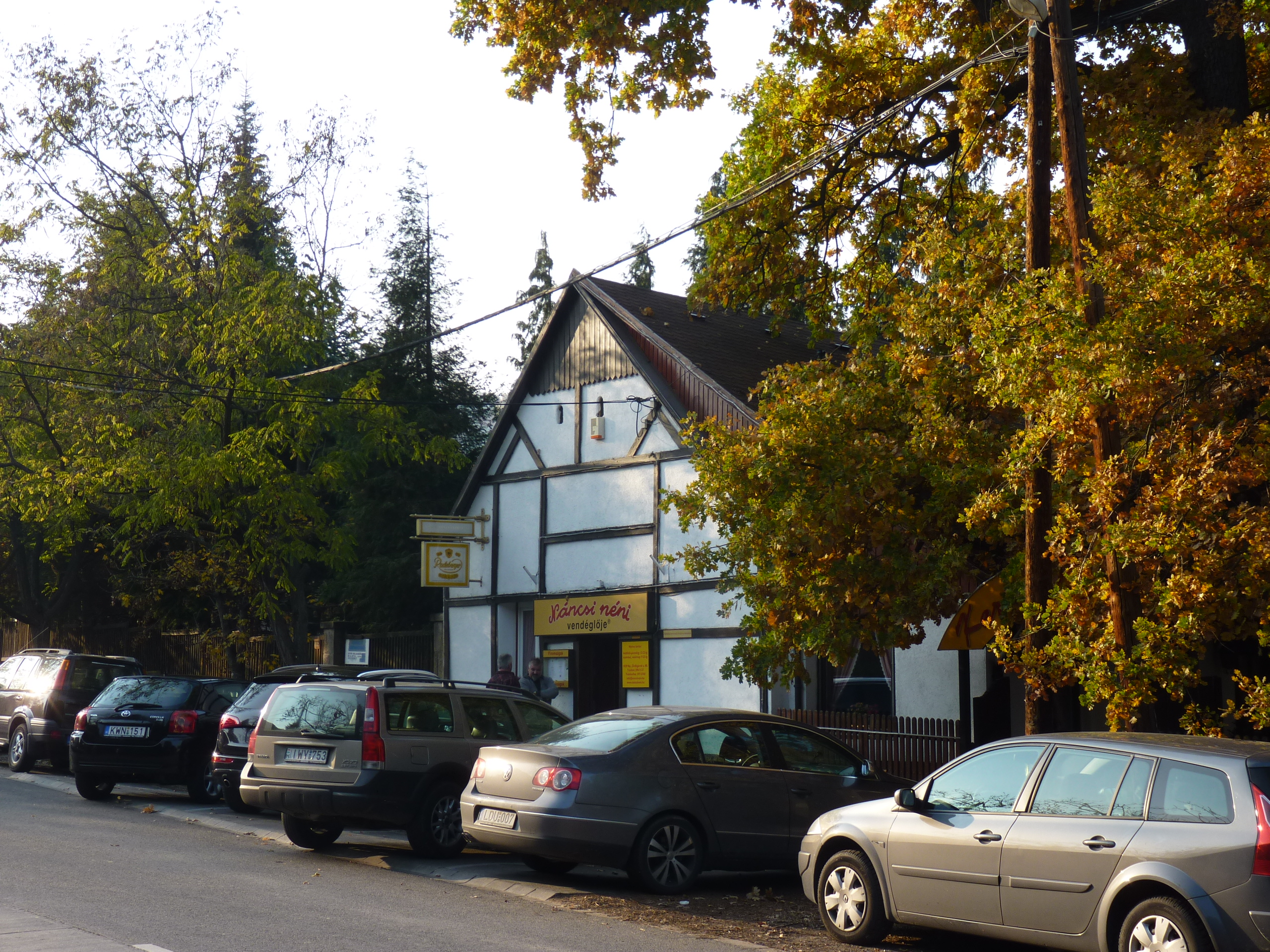 Náncsi néni Restaurant